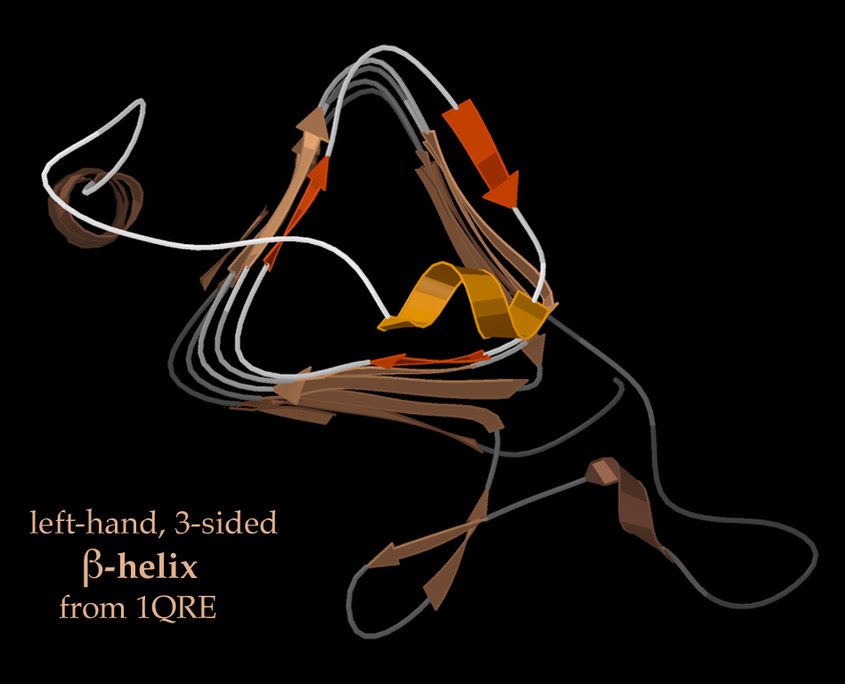 Ribbon schematic of a 3-sided, lefthanded beta-helix protein subunit (end view). Beta strands are shown as arrows; the backbone spirals clockwise up toward the viewer in the neatly triangular parallel beta sheets. The final turn (orange) is protected from possible aggregation by the small alpha-heix that lies across it. From the 1QRE archaeal carbonic anhydrase structure, visualized in Mage and rendered by Raster3D.